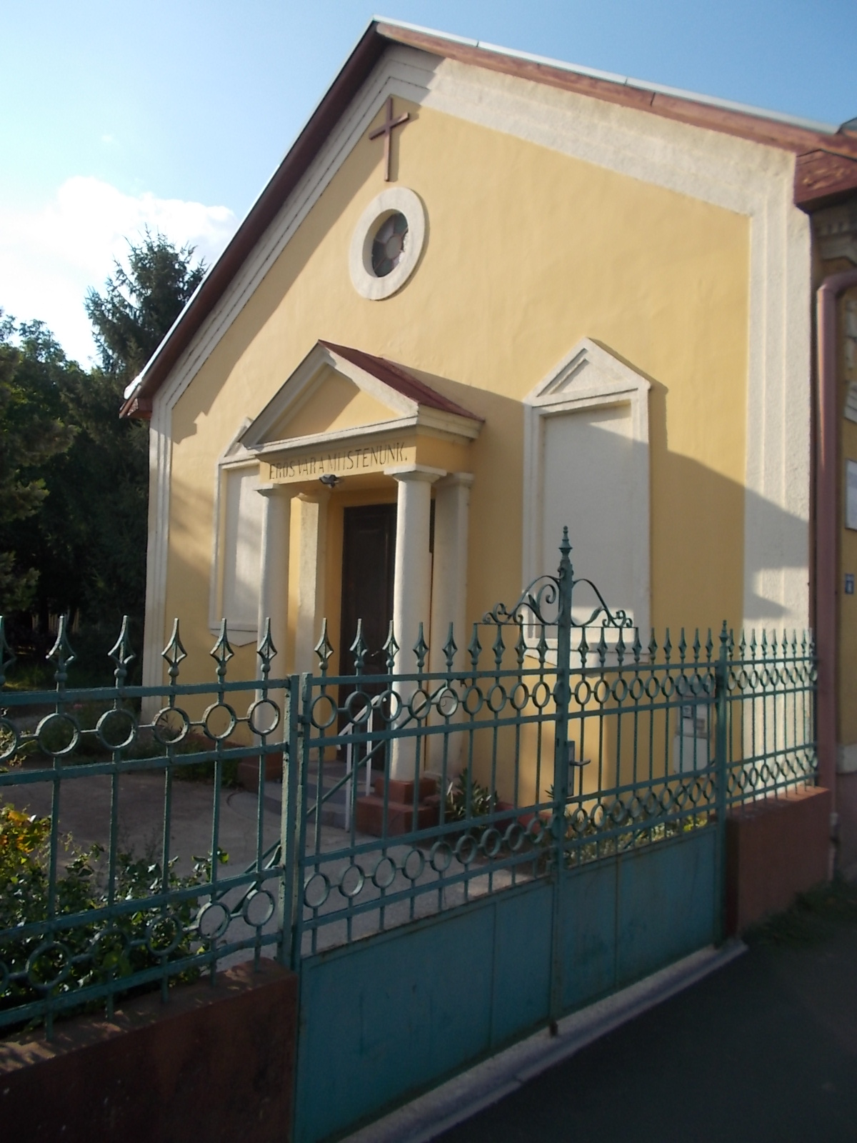 Lutheran Small Church - Árok Street&Széna Square 6? cnr, Nyíregyháza, Szabolcs-Szatmár-Bereg County, Hungary.